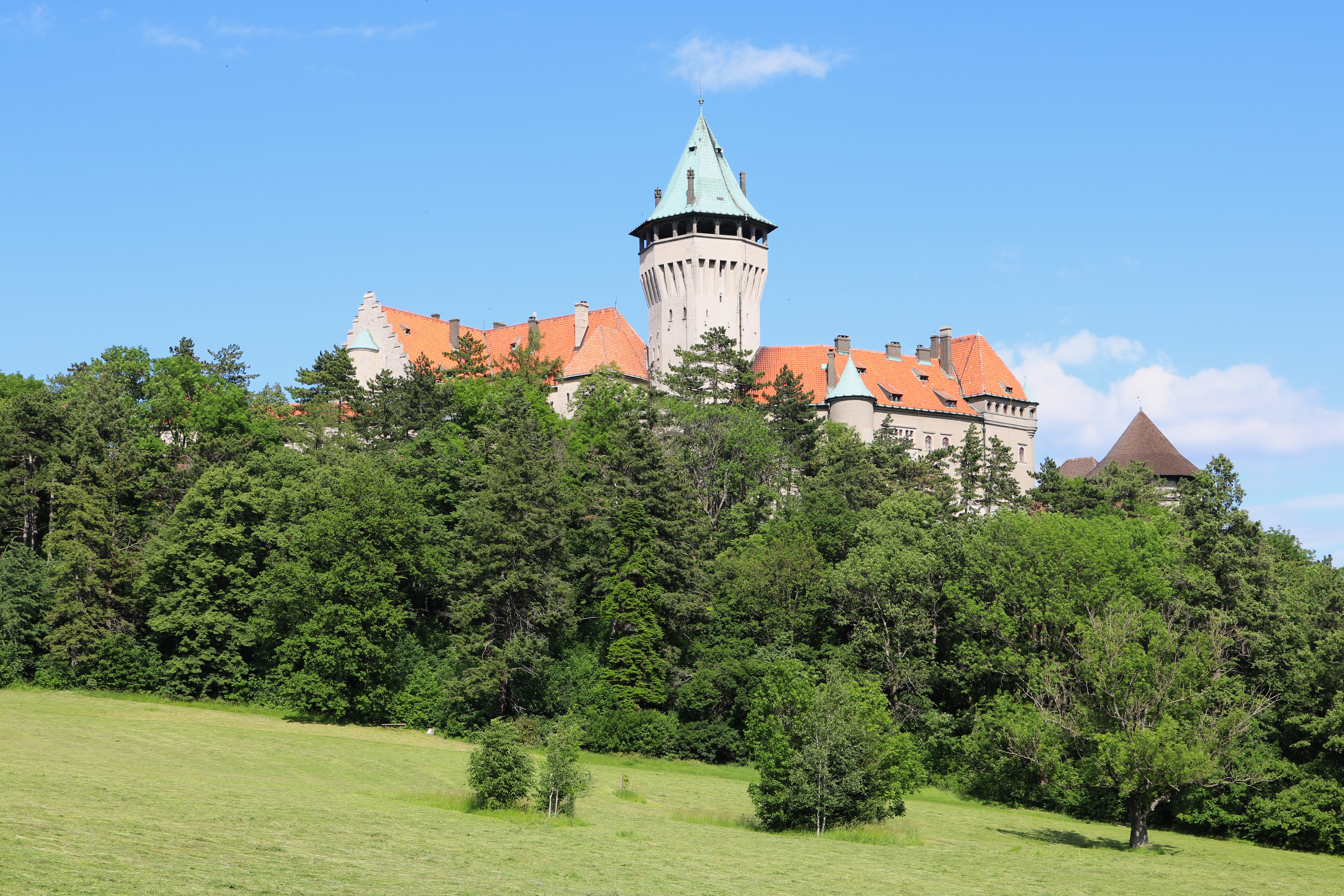 Smolenice Castle